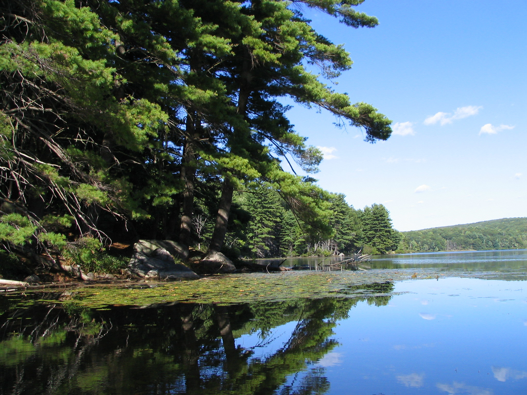 Lake Kanawauke in Harriman State Park Taken by User:Mwanner, 22 September, 2005.